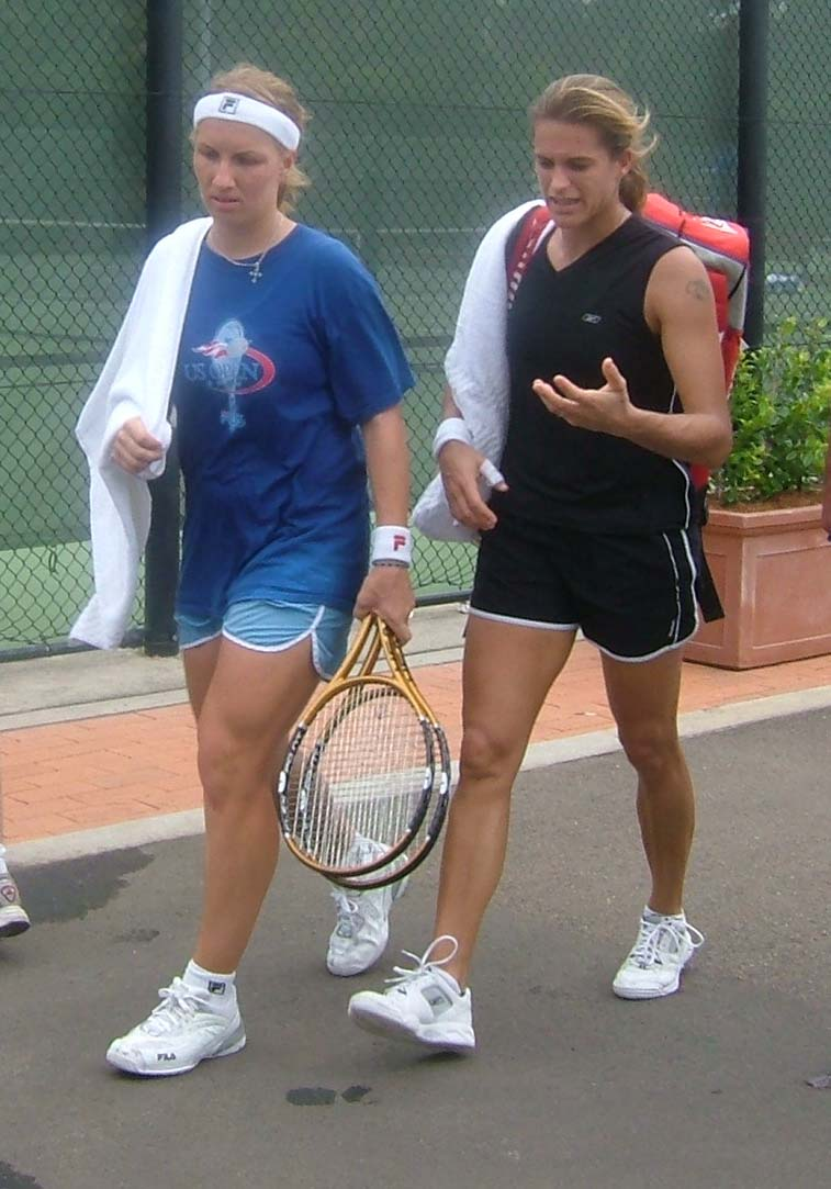 Tennis Players in discussion